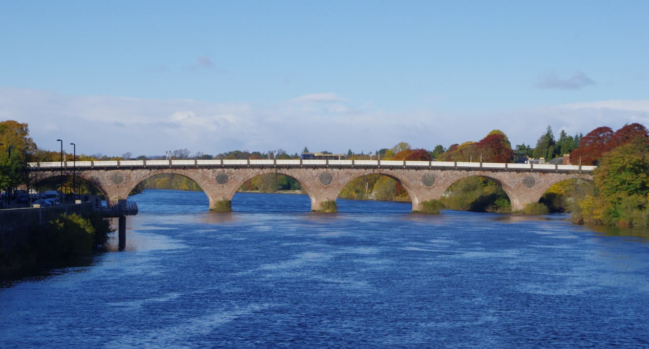 Perth Bridge